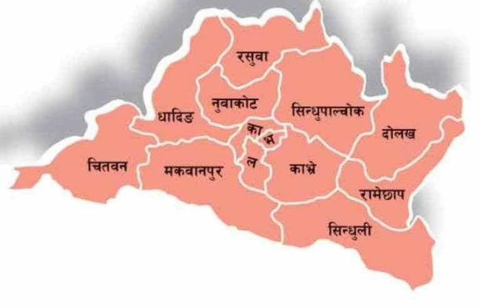 desct